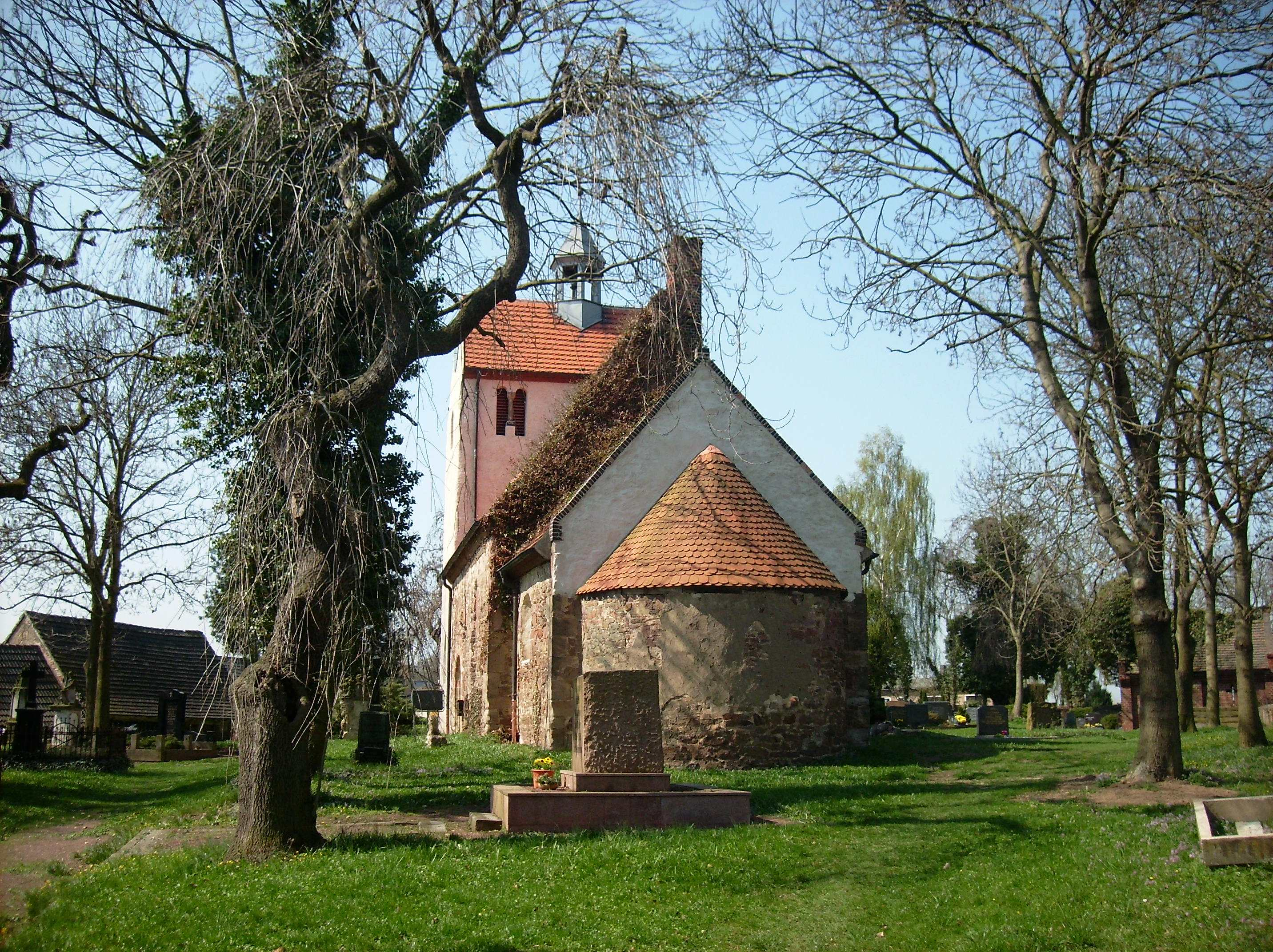 Romanesque church in Neutz (Wettin-Löbejün, district of Saalekreis, Saxony-Anhalt)